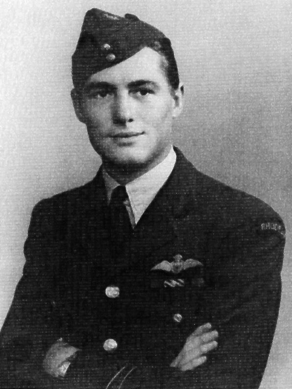 Flight Lieutenant Patrick Dorehill, DSO, DFC and Bar